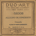 Recording by Paquita Madriguera of Allegro from Enric Granados